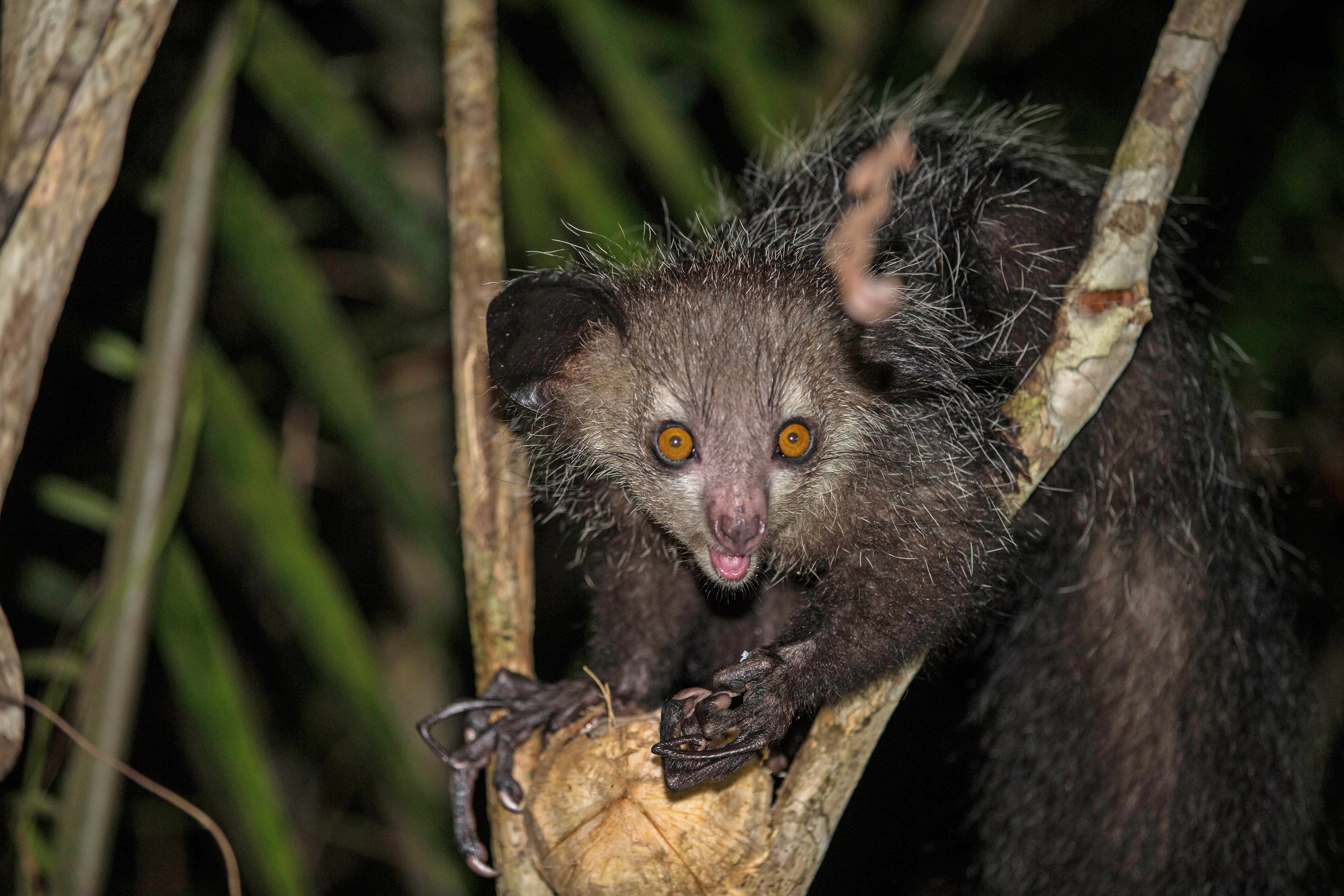 Wild aye aye.